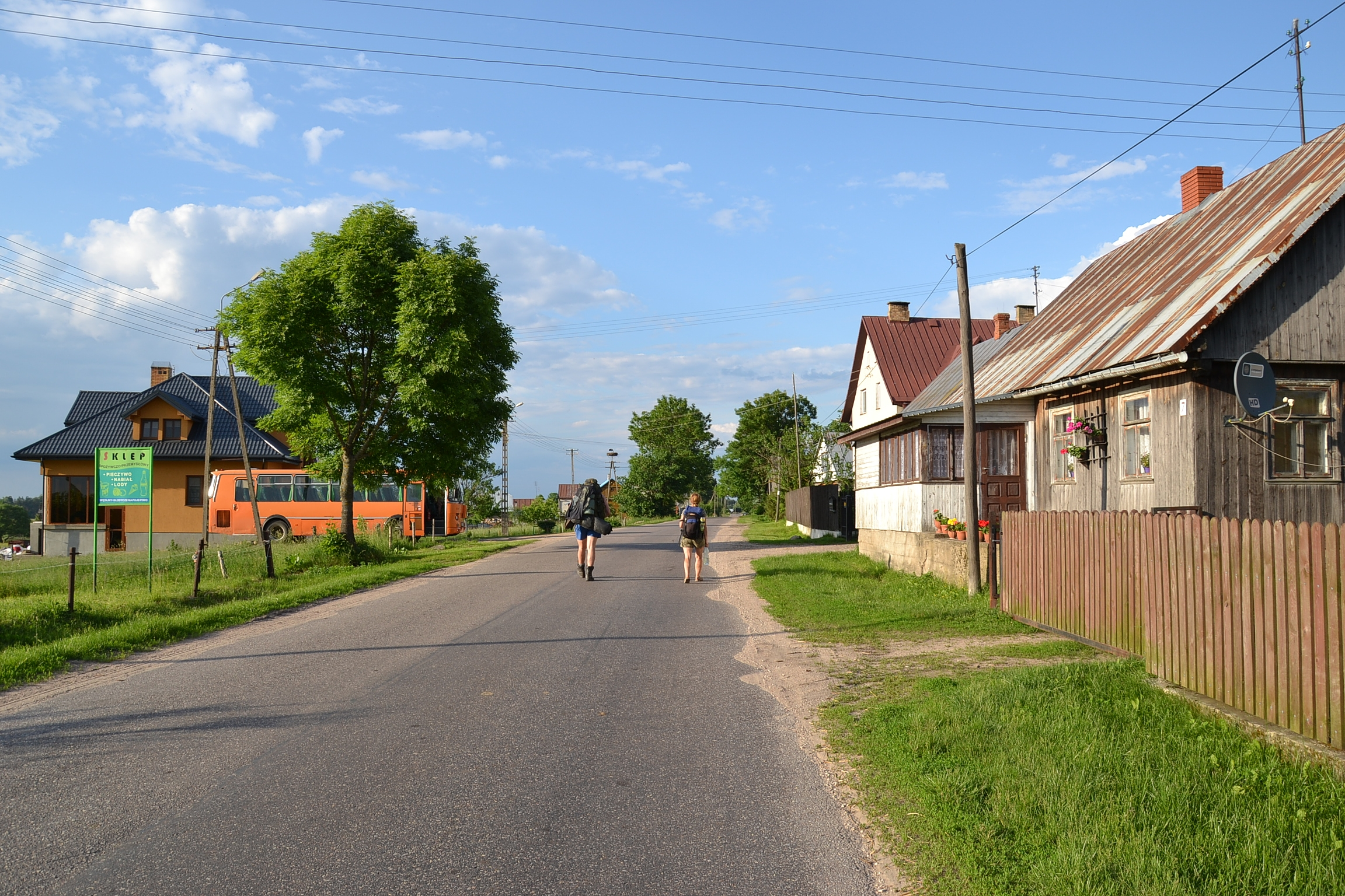 Skieblewo (Skieblevas, Скеблева) - main street